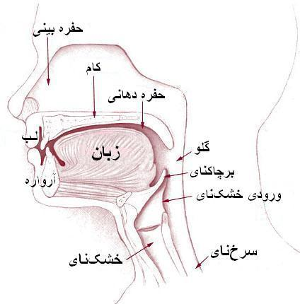 Head and neck overview